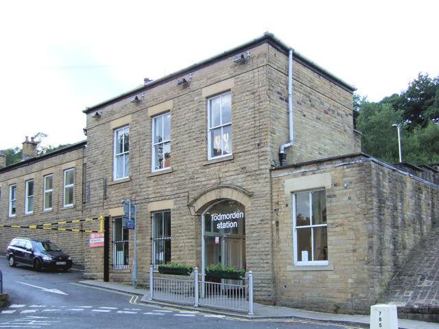 Todmorden Railway Station entrance